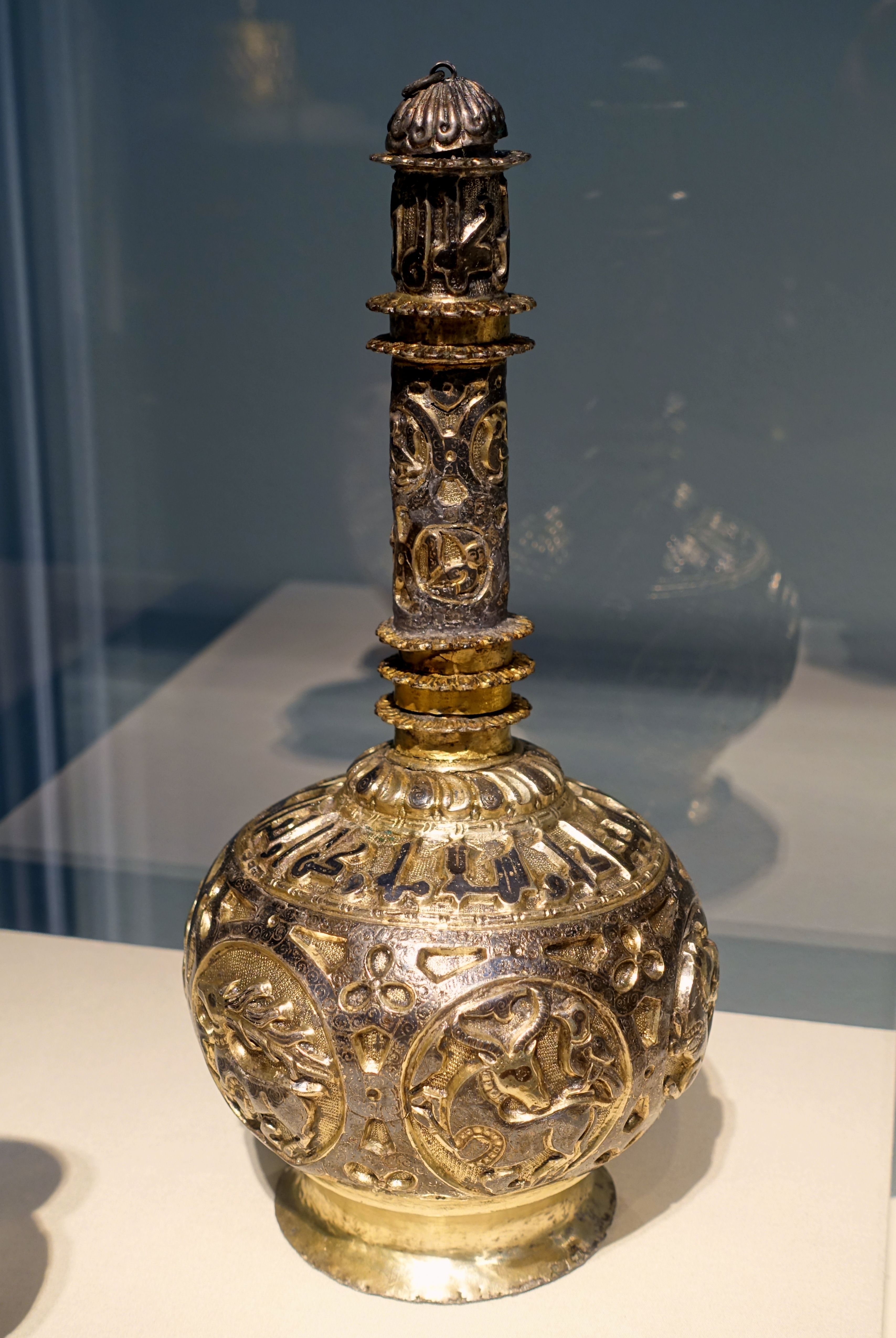 Exhibit in the Freer Gallery of Art, Washington, D.C., USA.